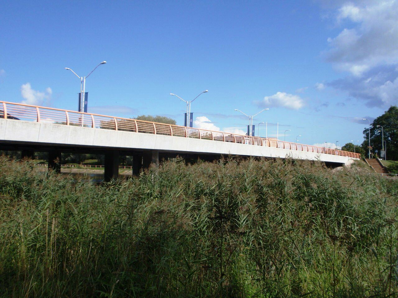 Pirita bridge in Tallinn.